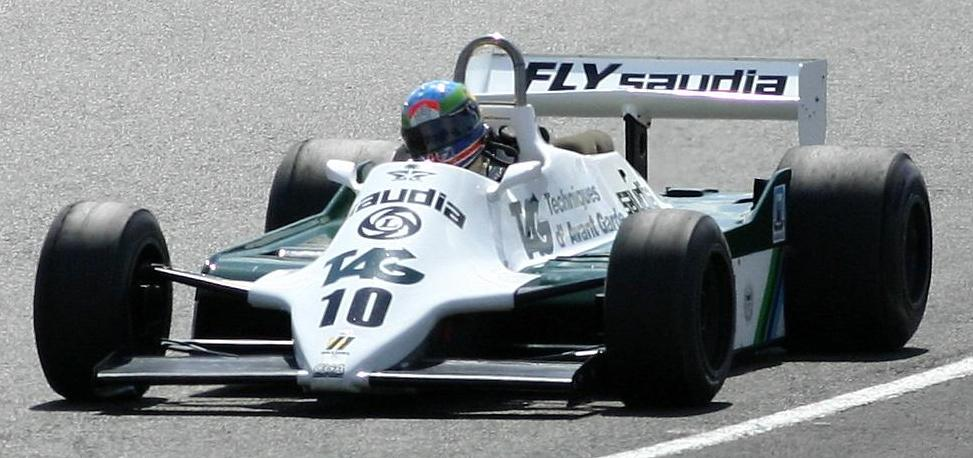 The Williams FW07C at the 2008 Silverstone Classic race meeting. Note:Cropped from larger image